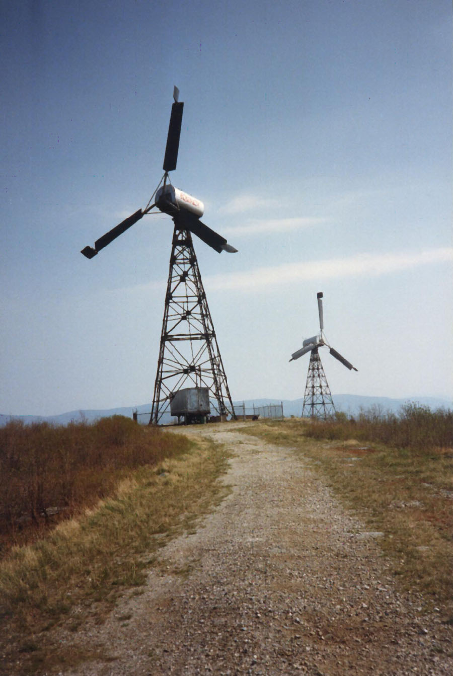 These turbines stood on Little Equinox Mountain in the 1980s